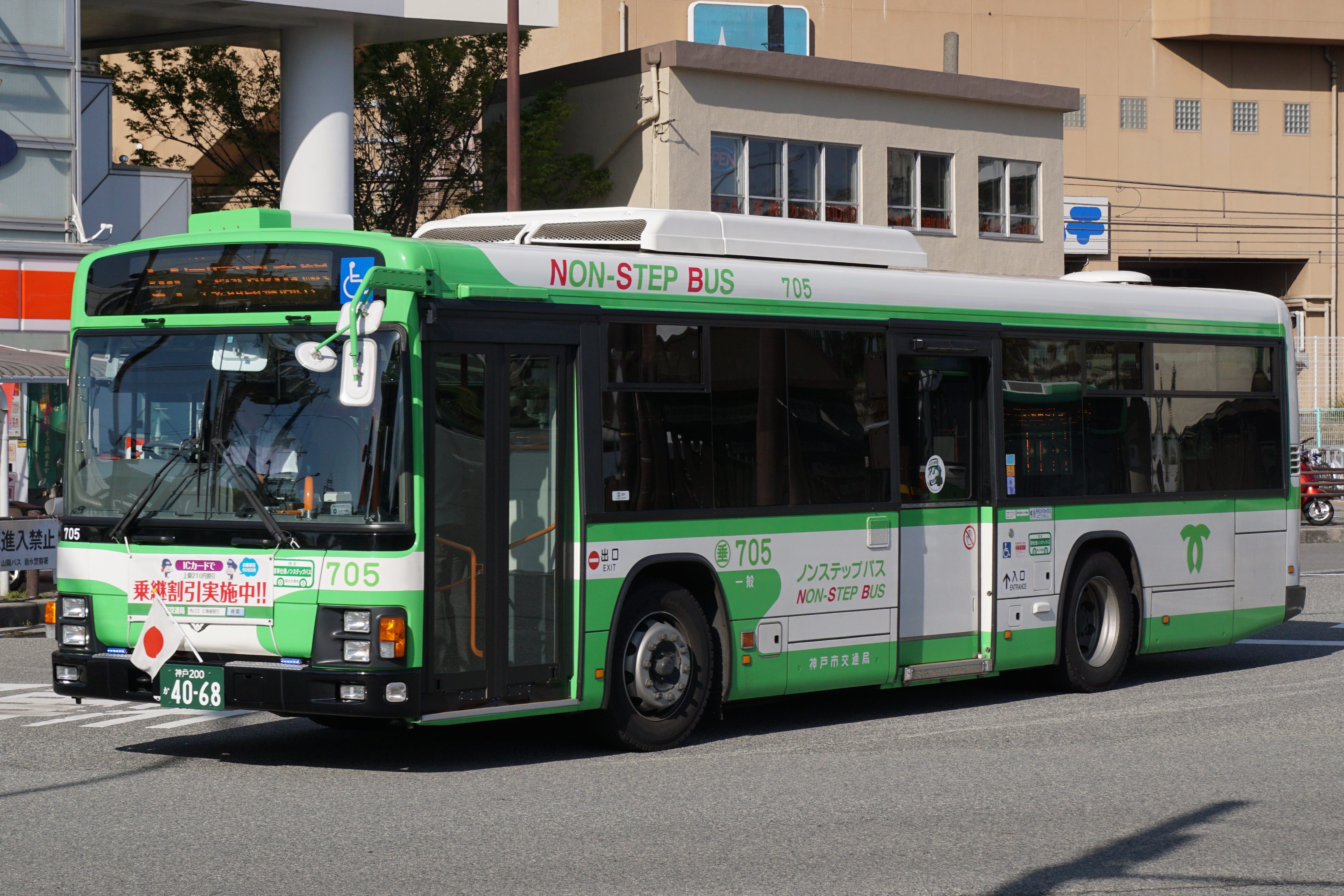 Erga that made of Isuzu Motors has been introduced into the Kobe City Bus (QKG-LV234L3). Photo Taken at Maiko Station.